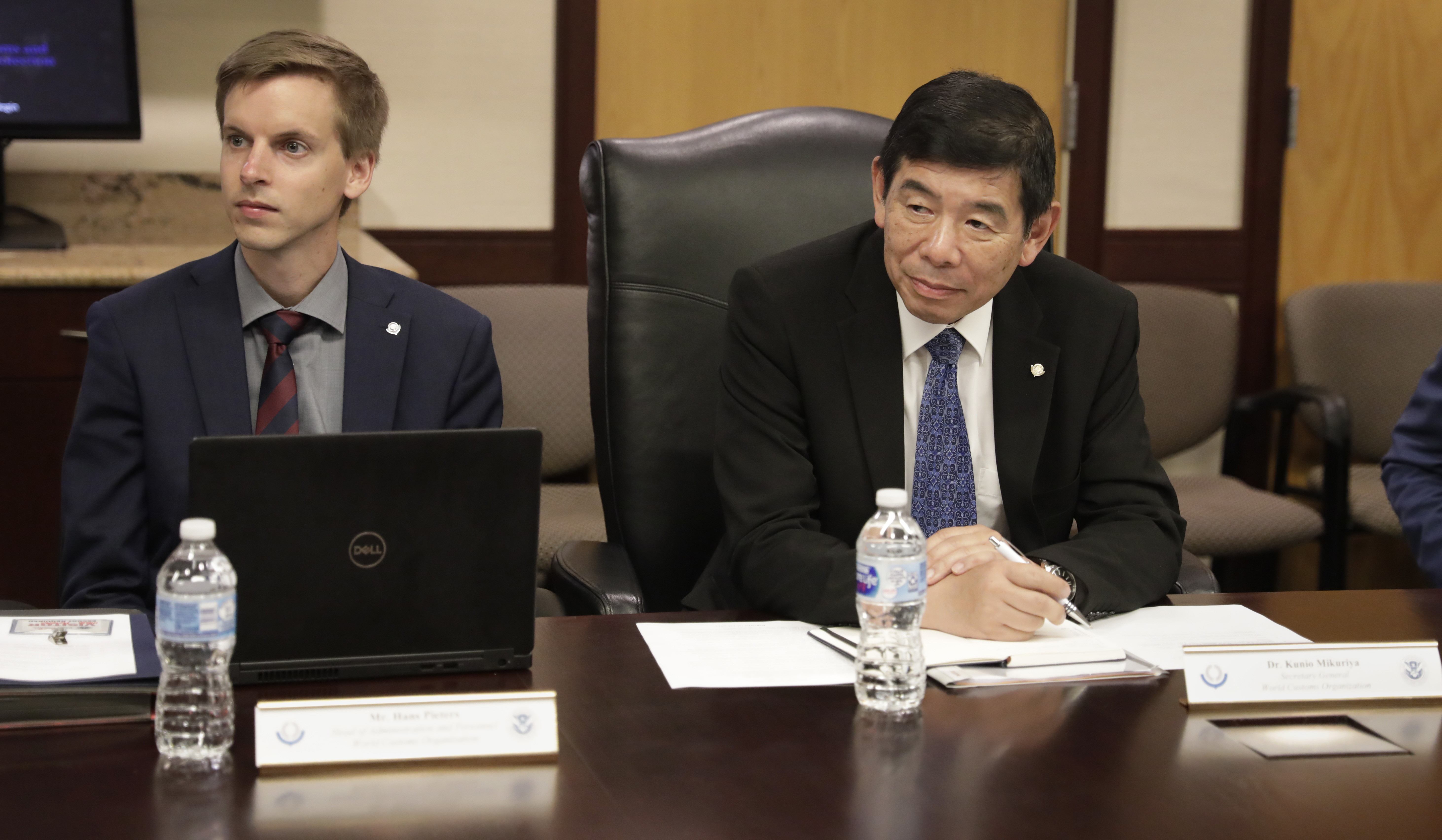 World Customs Organization Secretary Gen. Kunio Mikuriya listens as U.S. Customs and Border Protection Assistant Commissioner of International Affairs Ian Saunders and representatives from other federal agencies offer introductions at CBP headquarters in Washington, D.C., Sept. 12, 2019. CBP photo by Glenn Fawcett